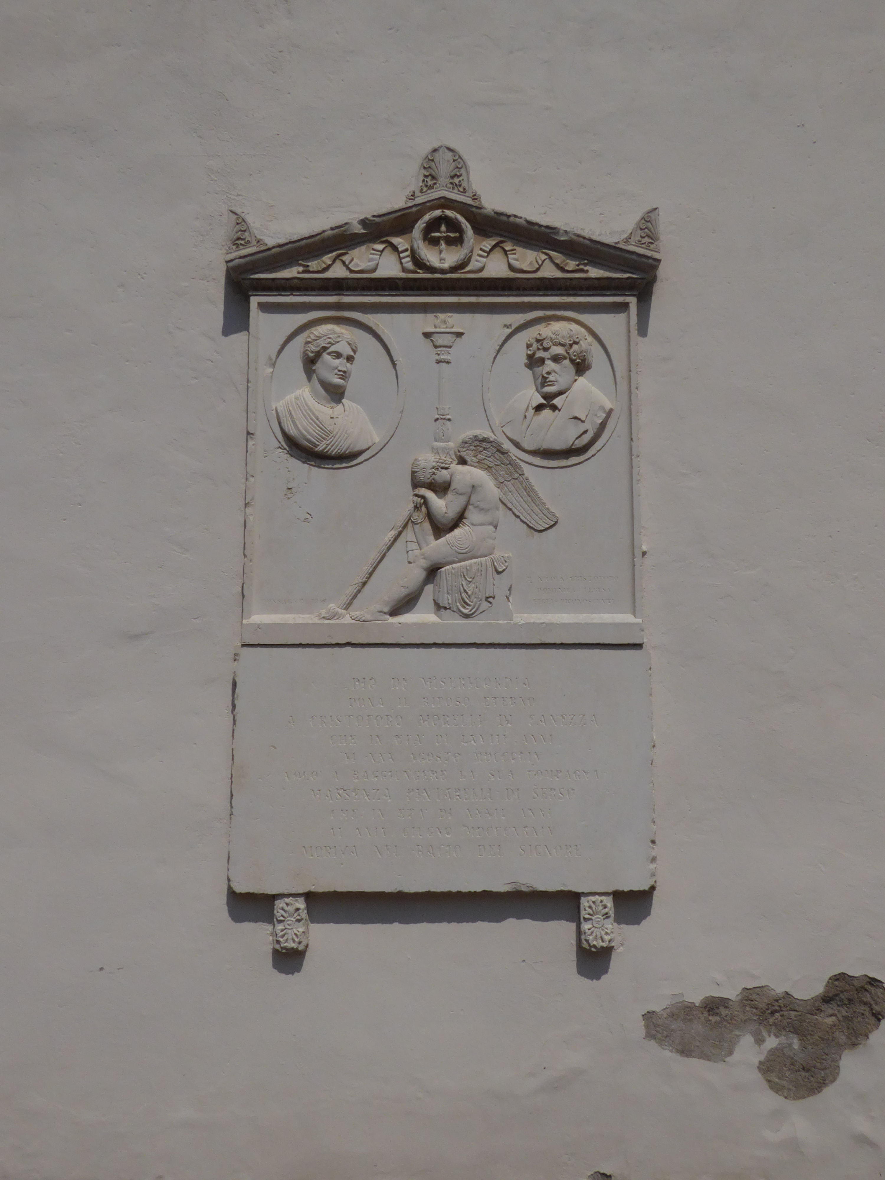 Canezza (Pergine Valsugana, Trentino, Italy) - Saint Roch church - Headstone on the side wall